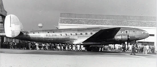 The Italian Breda-Zappata BZ.308 airliner